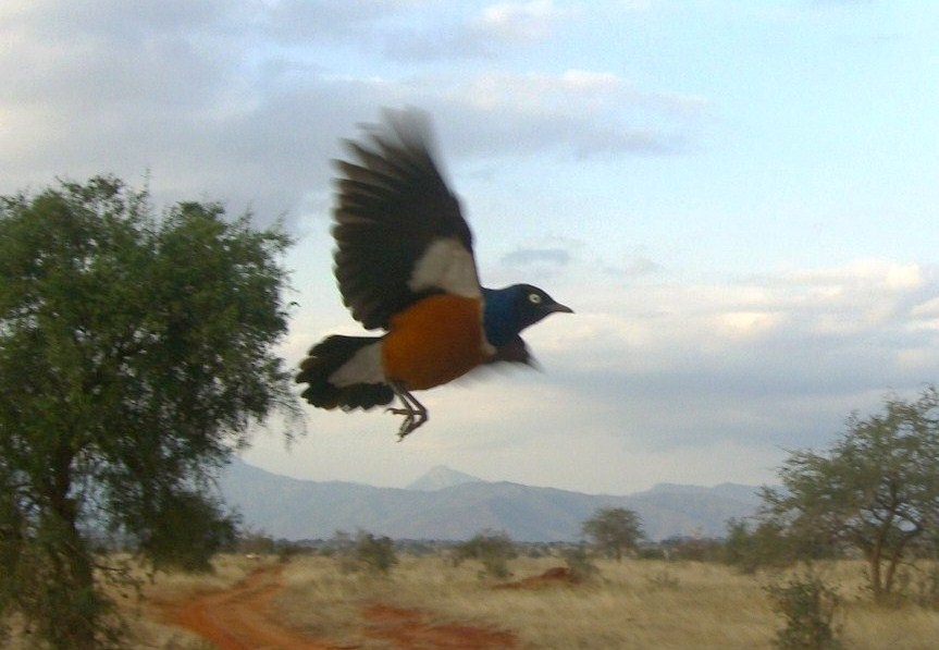 Superb Starling (Lamprotornis superbus) flying, Taita-Hills Kenia